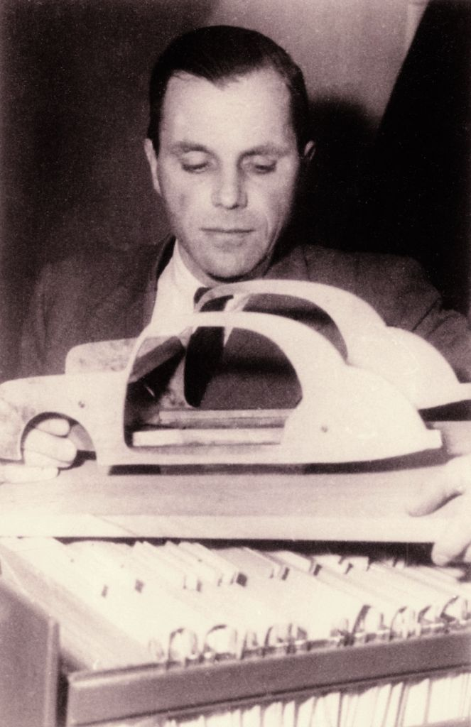 1939 – Start of passenger car safety development by Béla Barényi